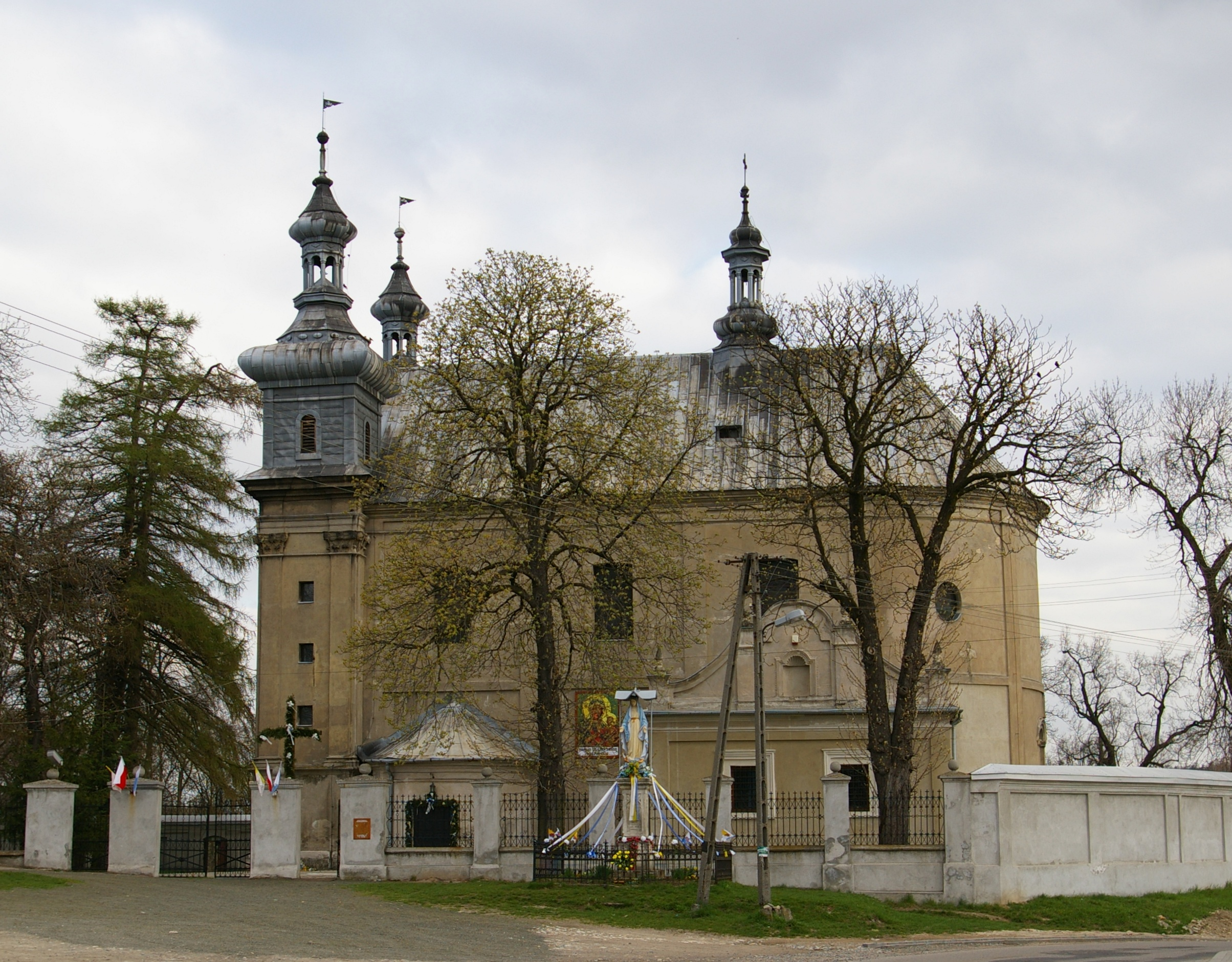 Parish church in Minoga, Poland